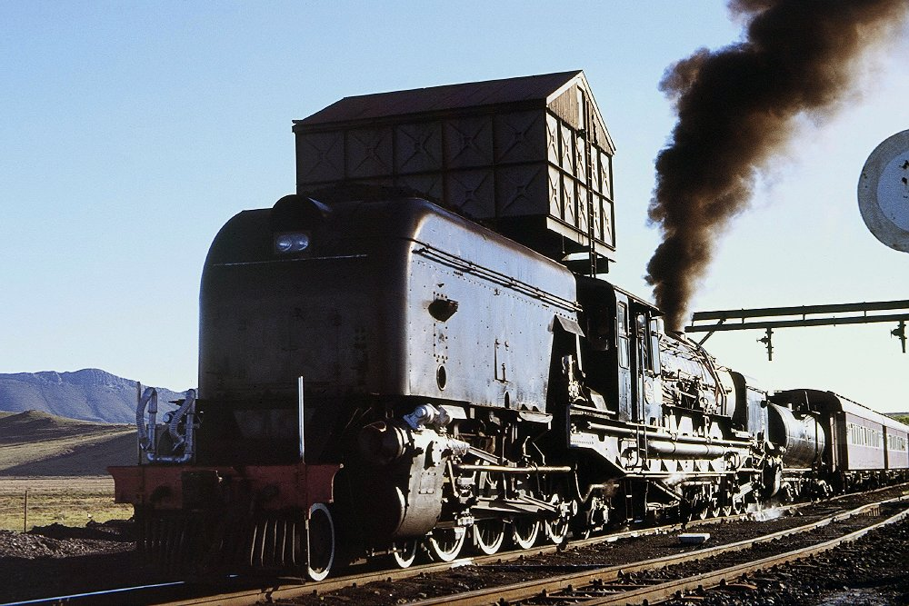 Garratt type steam locomotive of SAR class GMAM No 4099 at Jagpoort station, South Africa, a crossing station of the Lootsberg line. The Lootsberg pass will be reached in about 7,5 kilometers from here.